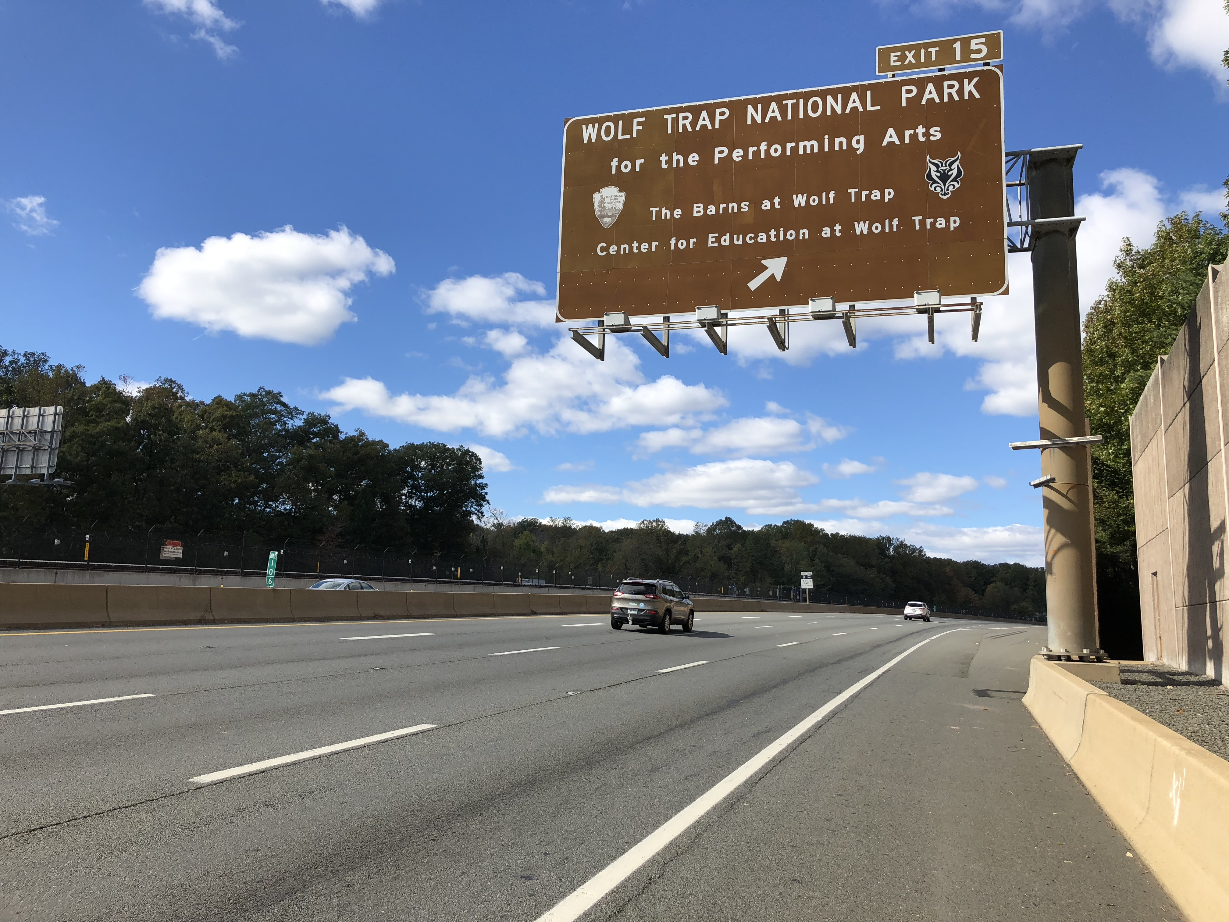 View west along Virginia State Route 267 (Dulles Toll Road) at Exit 15 (Wolf Trap National Park for the Performing Arts, The Barns at Wolf Trap, Center for Education at Wolf Trap) in Wolf Trap, Fairfax County, Virginia